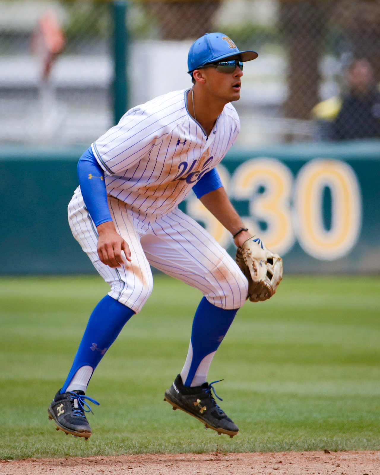 UCLA Bruins infielder Chase Strumpf; UCLA Baseball defeats Washington 14-2, May 19, 2019, Jackie Robinson Stadium, Los Angeles, CA.